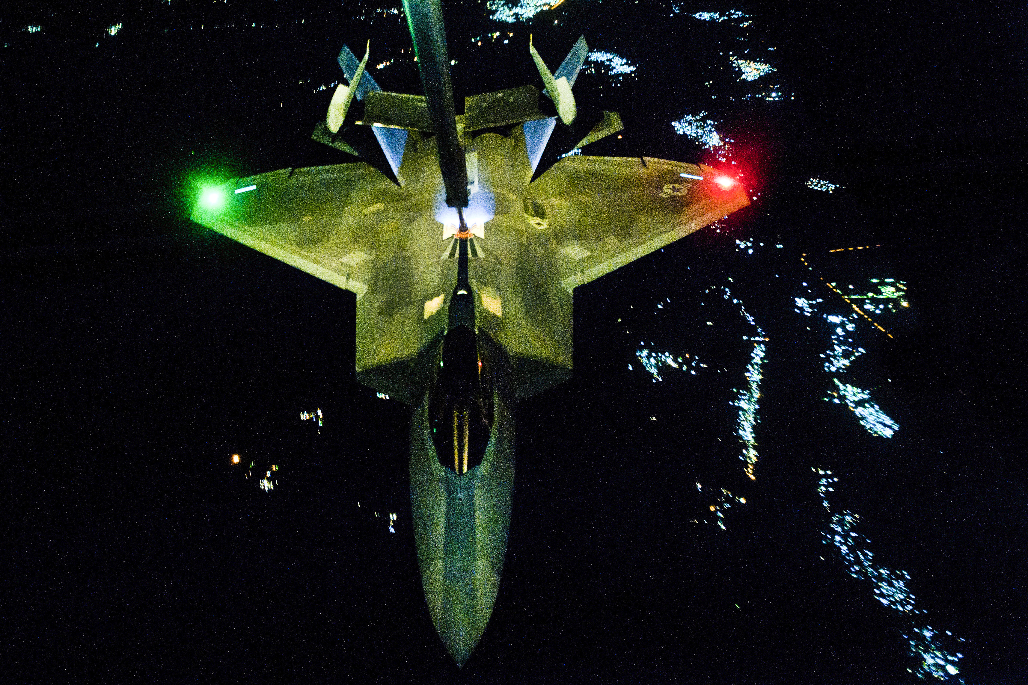 An U.S Air Force KC-10 Extender refuels an F-22 Raptor fighter aircraft prior to strike operations in Syria, Sept. 26, 2014. These aircraft were part of a strike package that was engaging ISIL targets in Syria. (U.S. Air Force photo by Tech. Sgt. Russ Scalf)